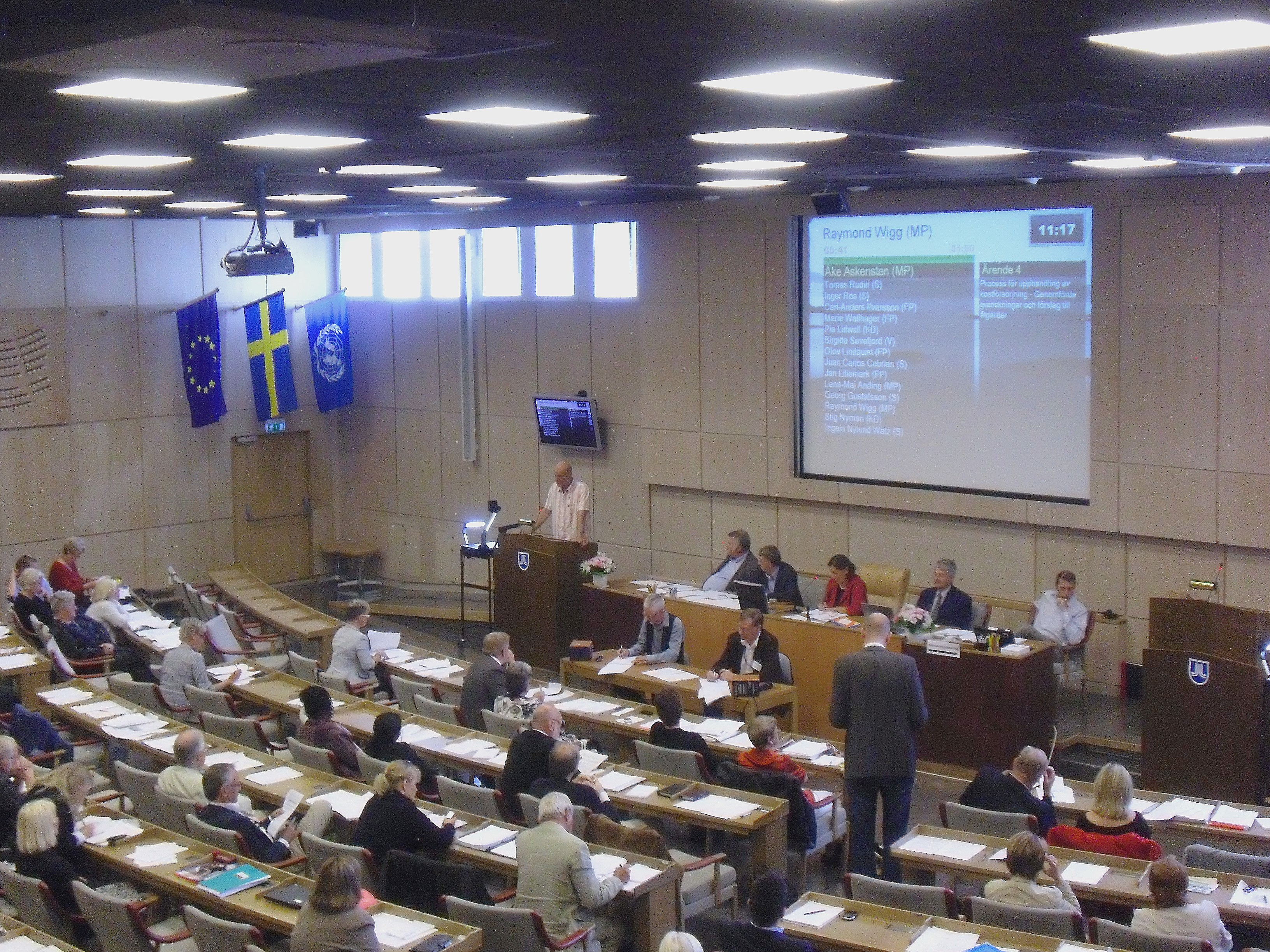 Meeting at the Stockholm County Council in the Council´s office Landstingshuset in Stockholm